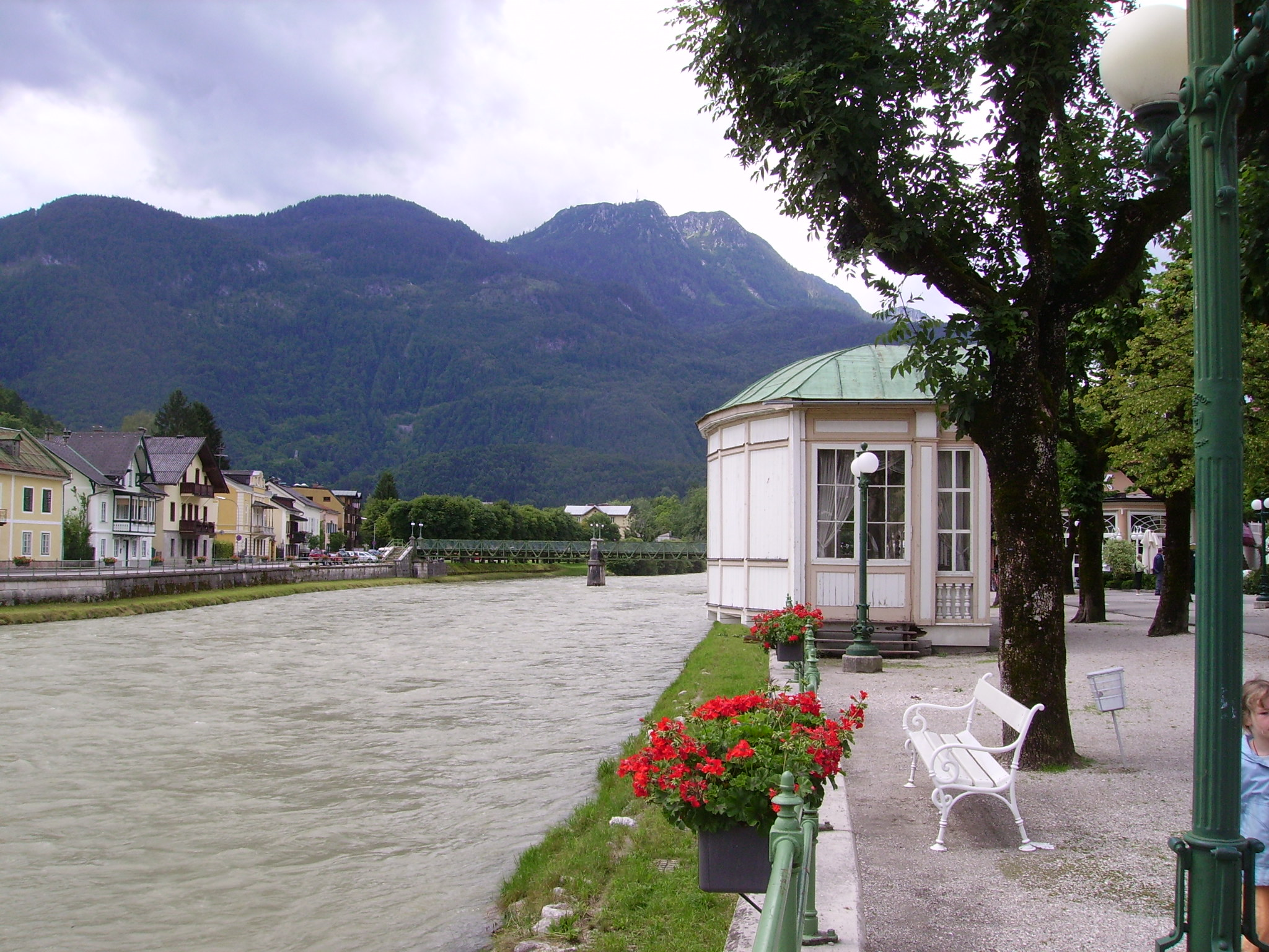 Bad Ischl, Austria, denkmalgeschützter Musikpavillon